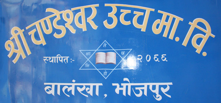 The signboard for New +2 Chandeswor High Secondary School in Balankha. The painter of the signboard is Mr. Gobardhan (G.D.) Rai who is also the former student of Chandeswor High School.